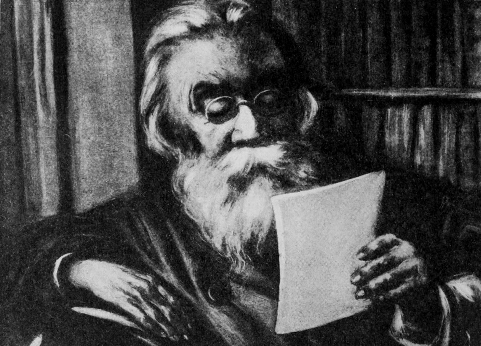 Pyotr Lavrov